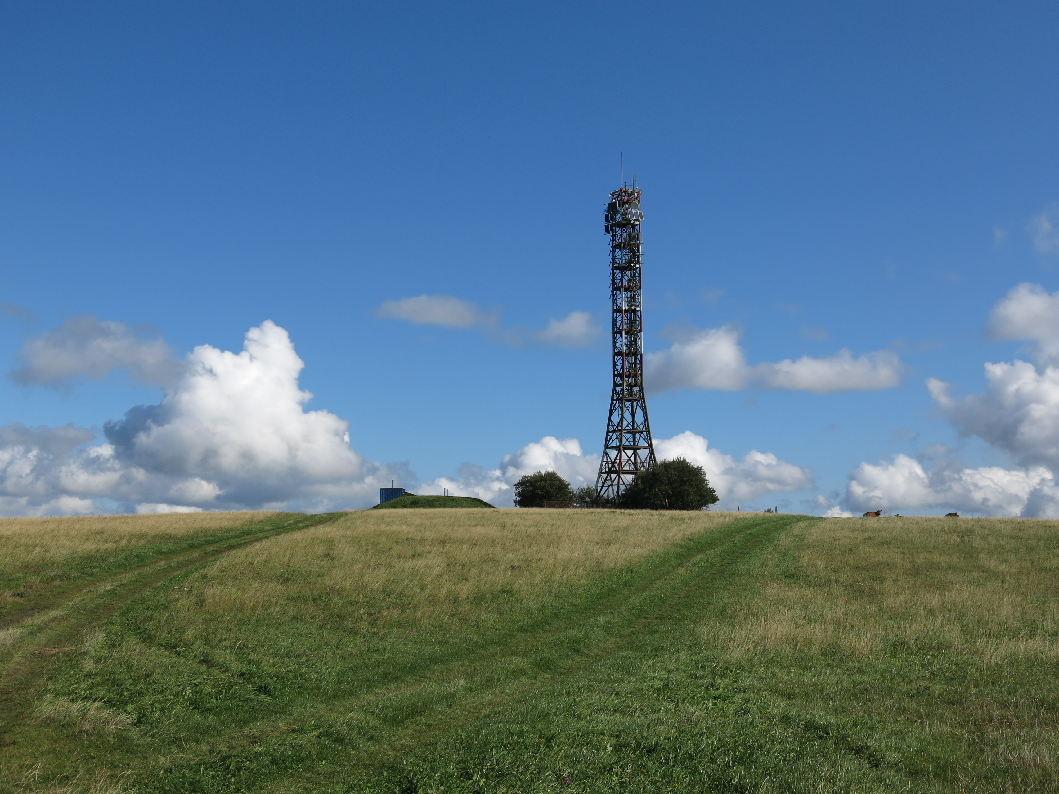 Transmission site on the Schnitzersberg, 1.5 km south of the Ellenbogen